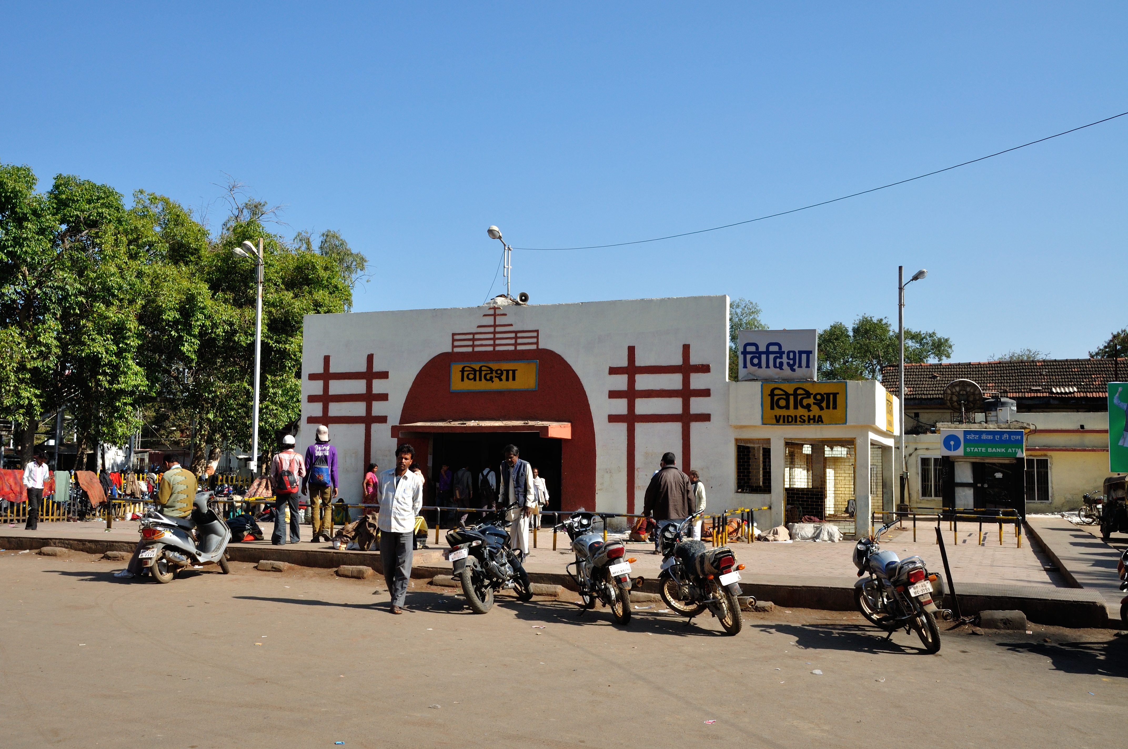 Photographed in Vidisha.